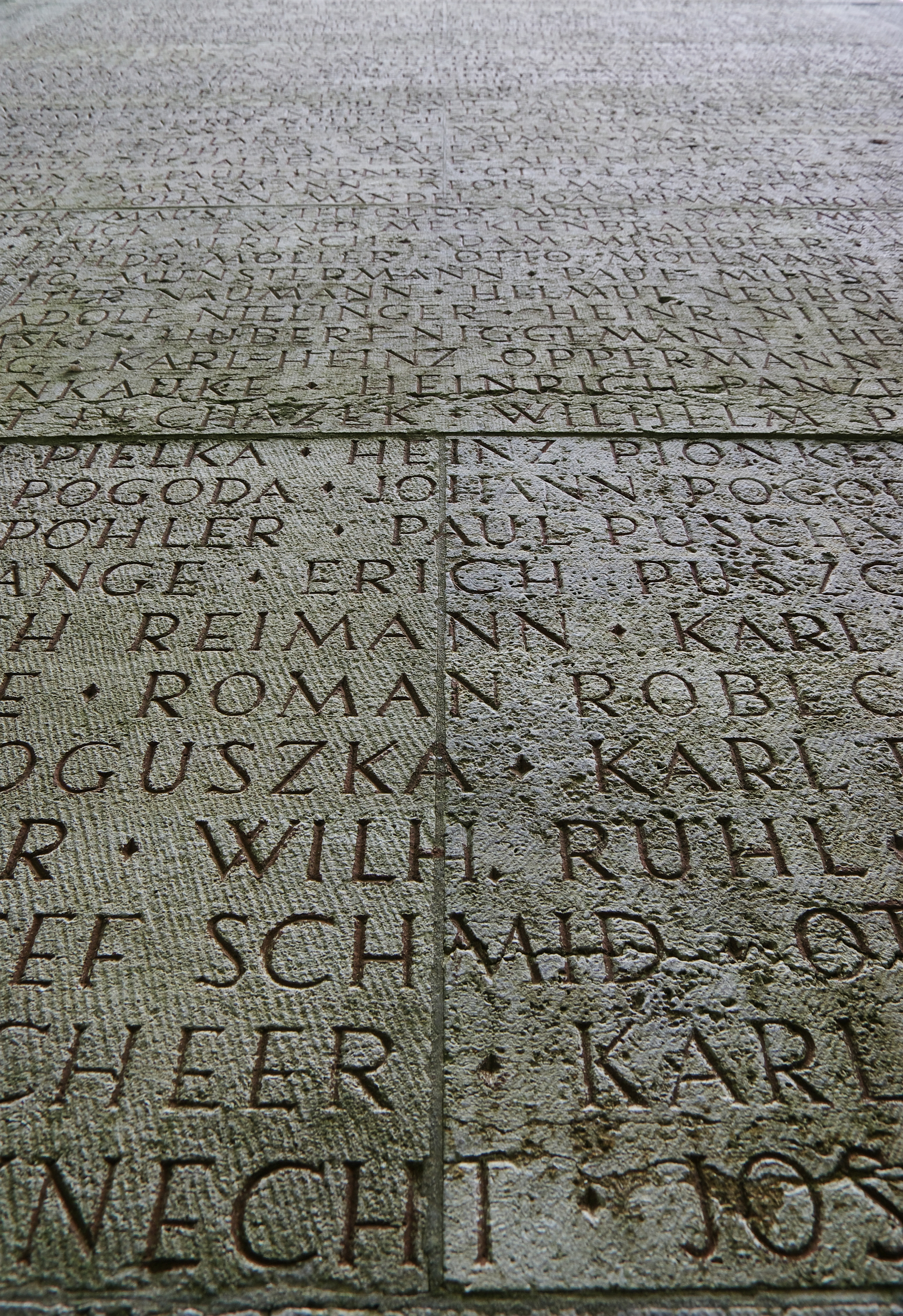 Memorial to the most severe coal mining disaster in Germany at pit "Grimberg 3/4" in Bergkamen in 1946, with 405 victims. Rear side of the memorial with names list.